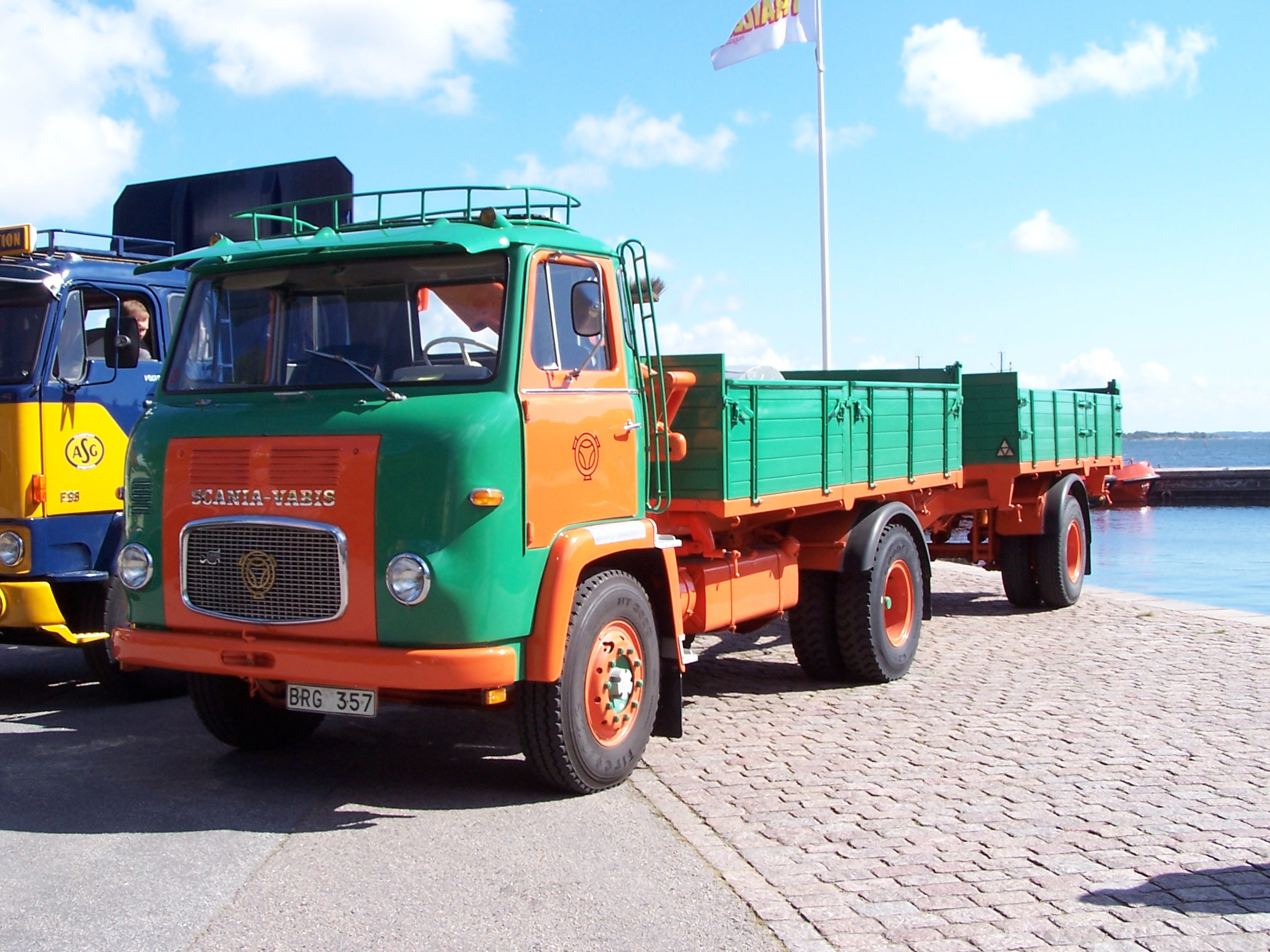 Scania Vabis LB76 (1966).